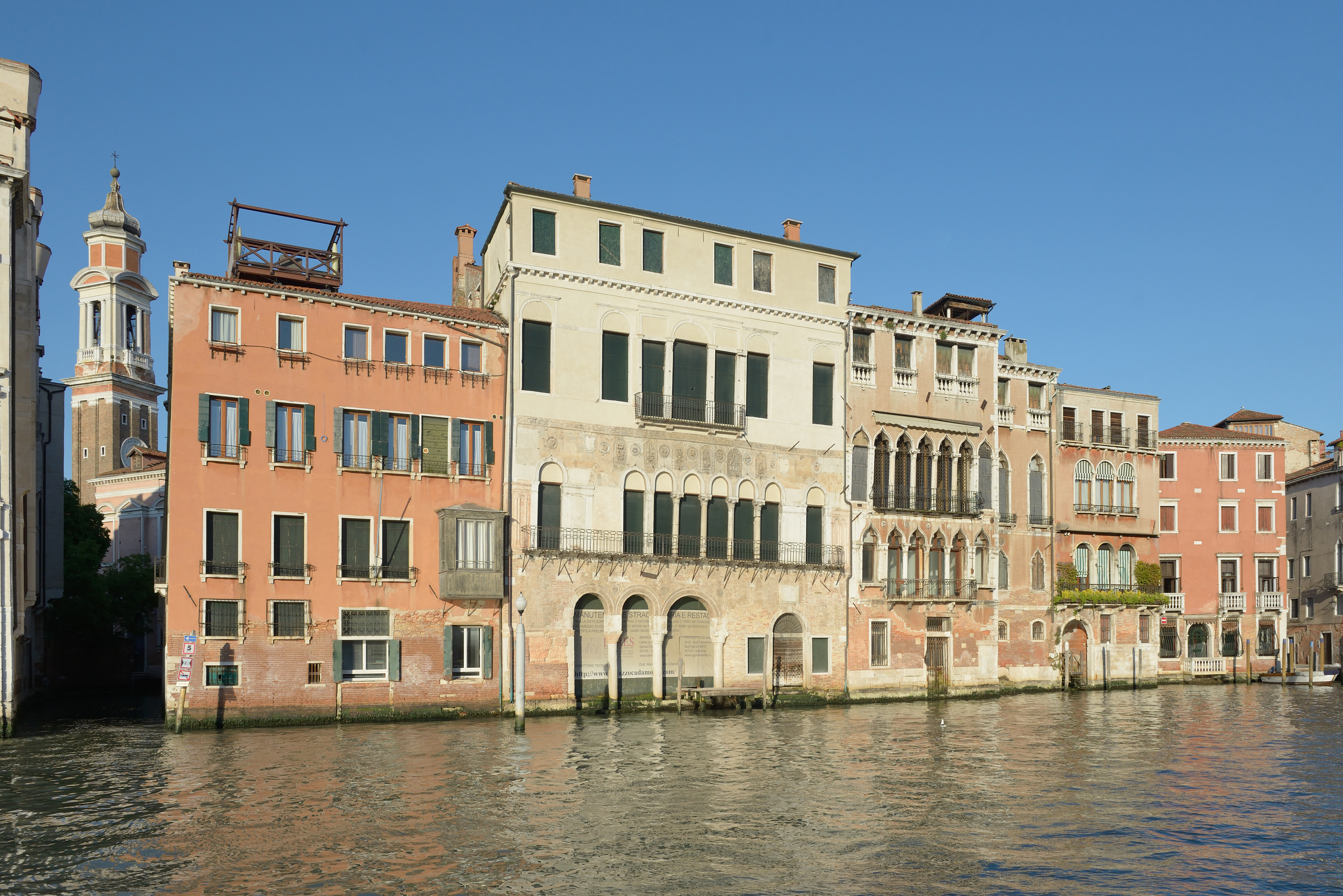 The Ca' da Mosto palace and Palazzo Dolfin in Venice. View from the Canal Grande.